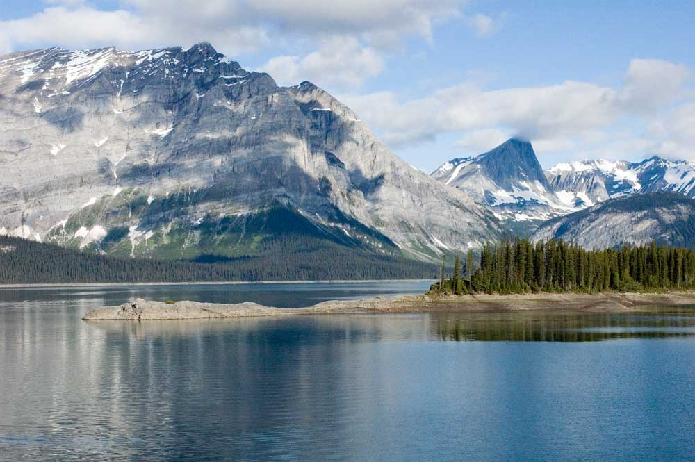 Upper Kananaskis Lake in Peter Lougheed Provincial Park in Alberta, Canada Taken by Chuck Szmurlo in June 2006 with a Nikon D70 and 28-70 f2.8 lens